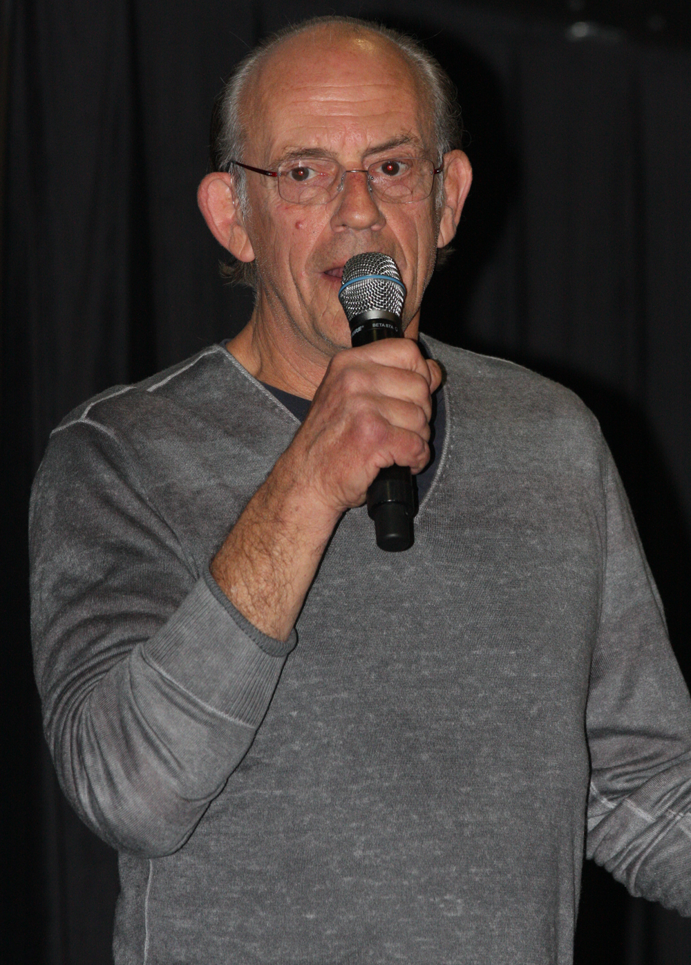 Christopher Lloyd at the Supernova Pop Culture Expo Hits Sydney, Australia 2012.